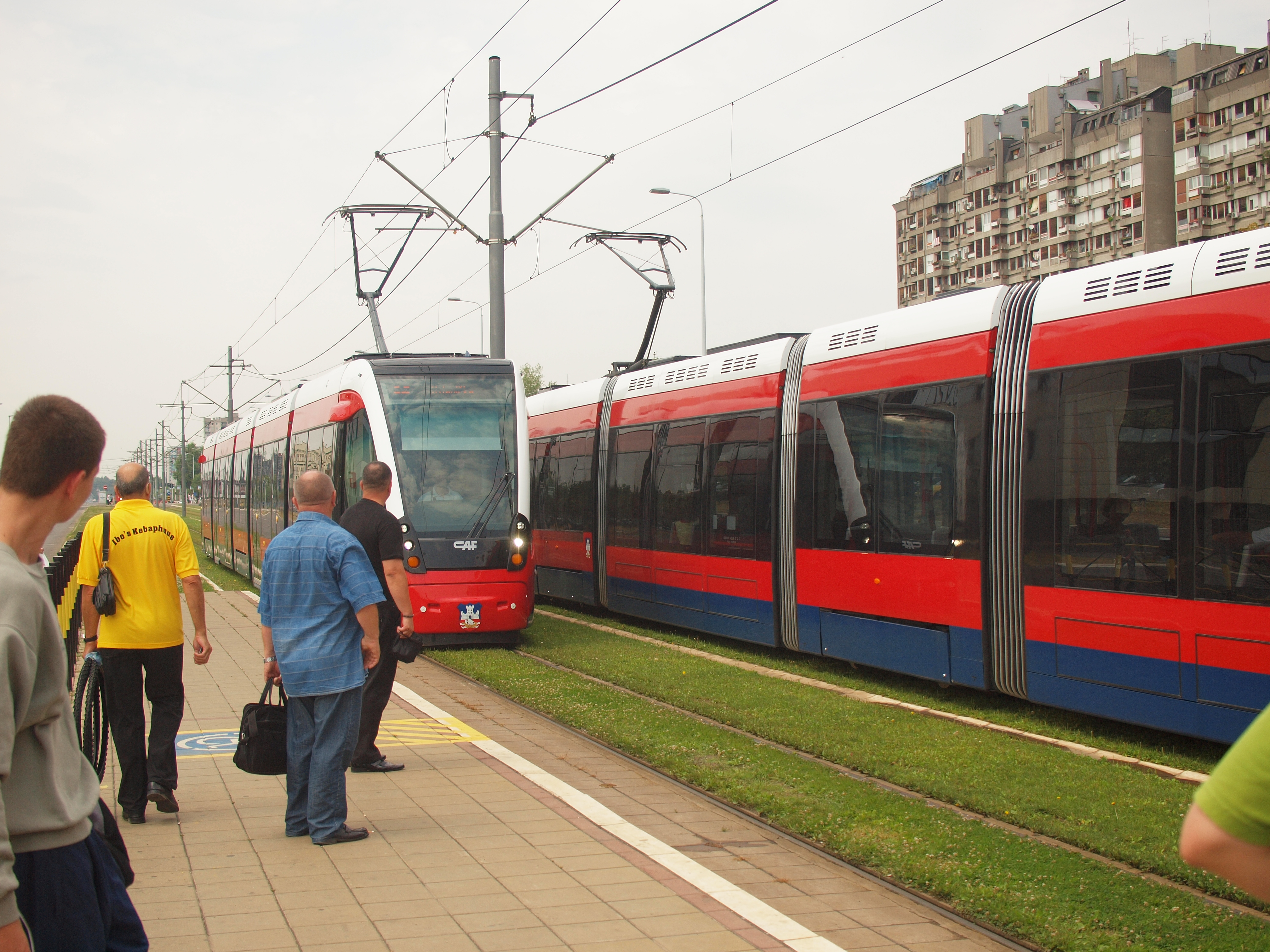 CAF tramway Belgrade